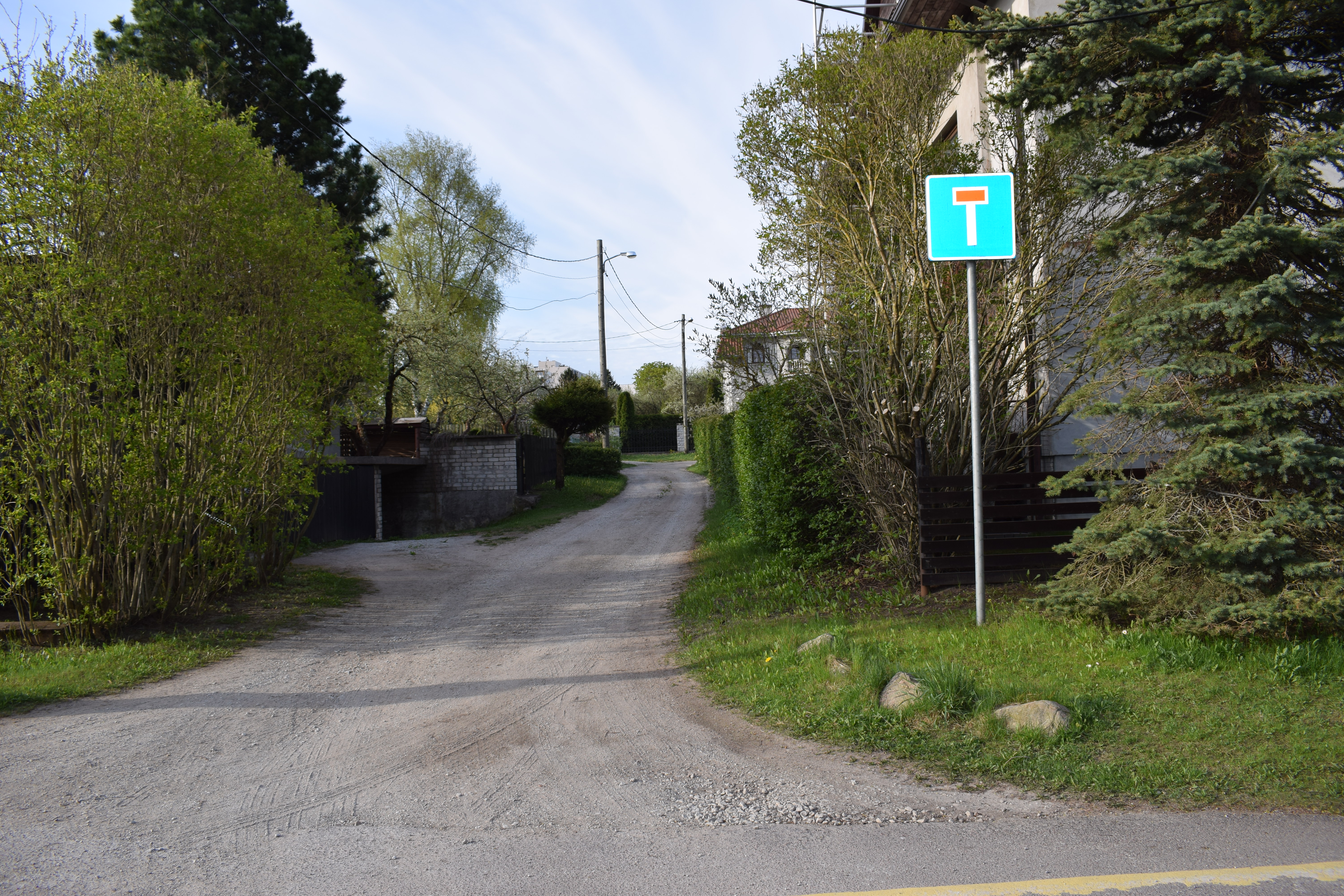 Kesalille tee